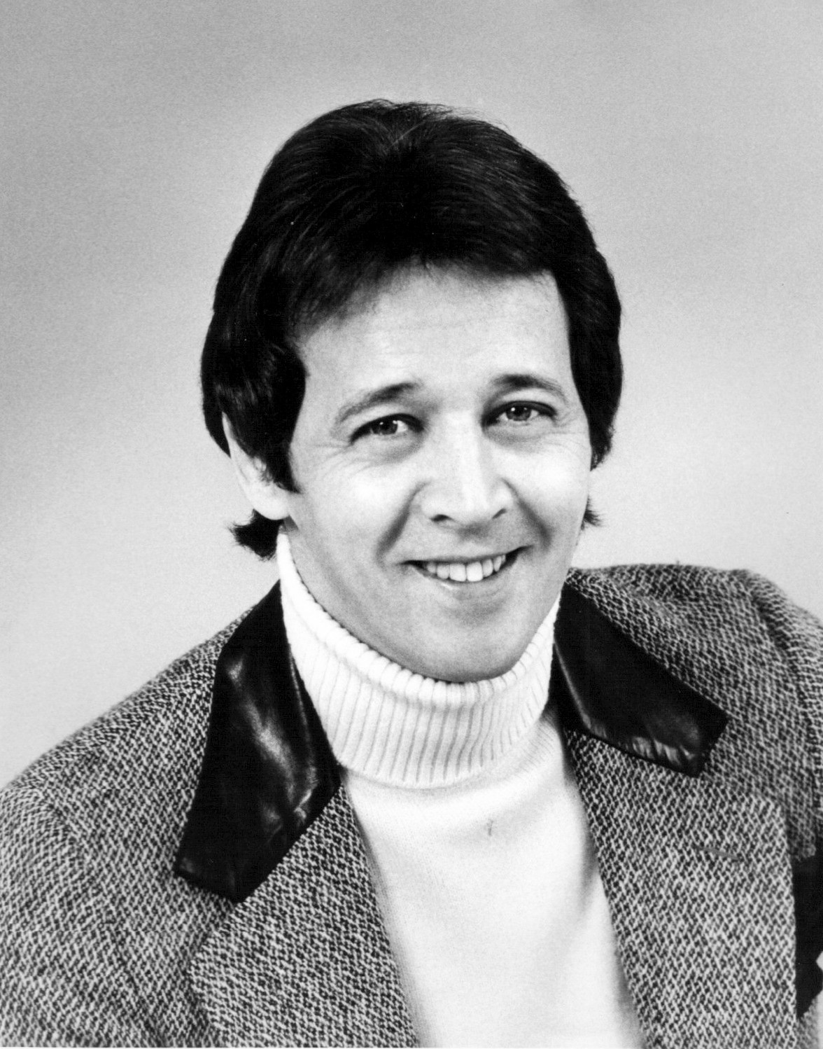 Photo of Bobby Van from the television game show Showoffs, which he hosted.